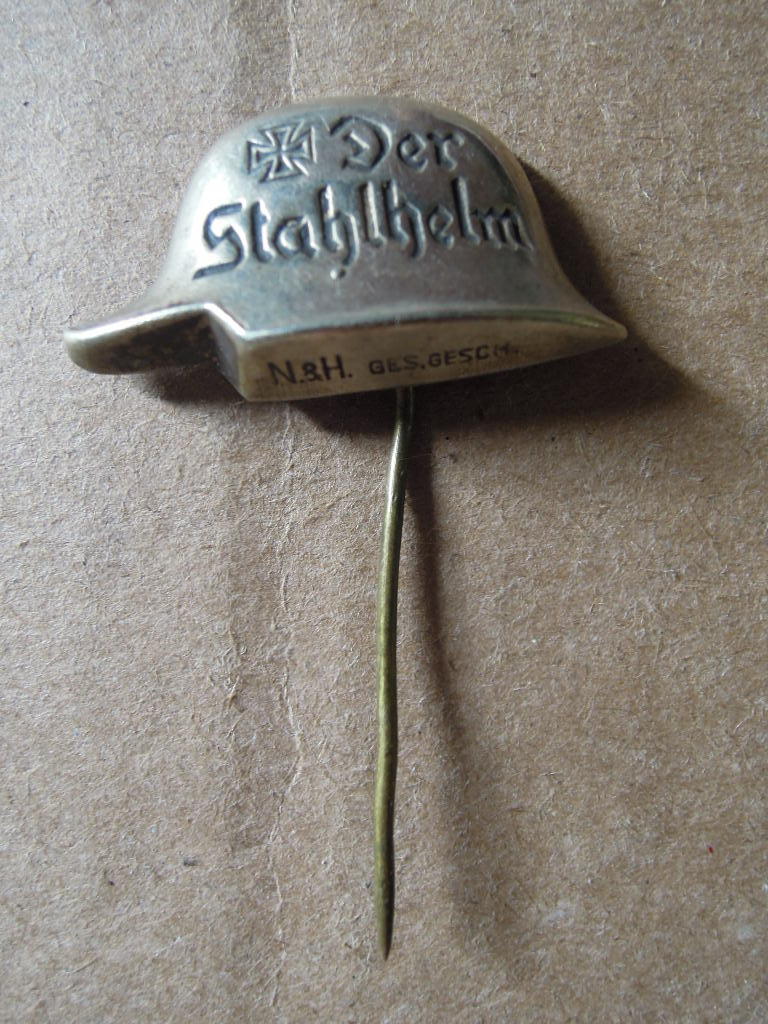 A Stahlhelm membership stickpin